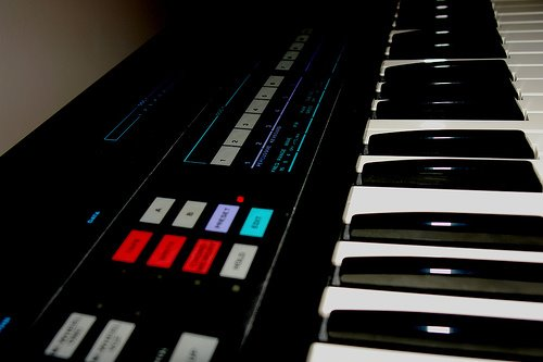 Photo of the Akai AX80 synthesizer by Rwintle.